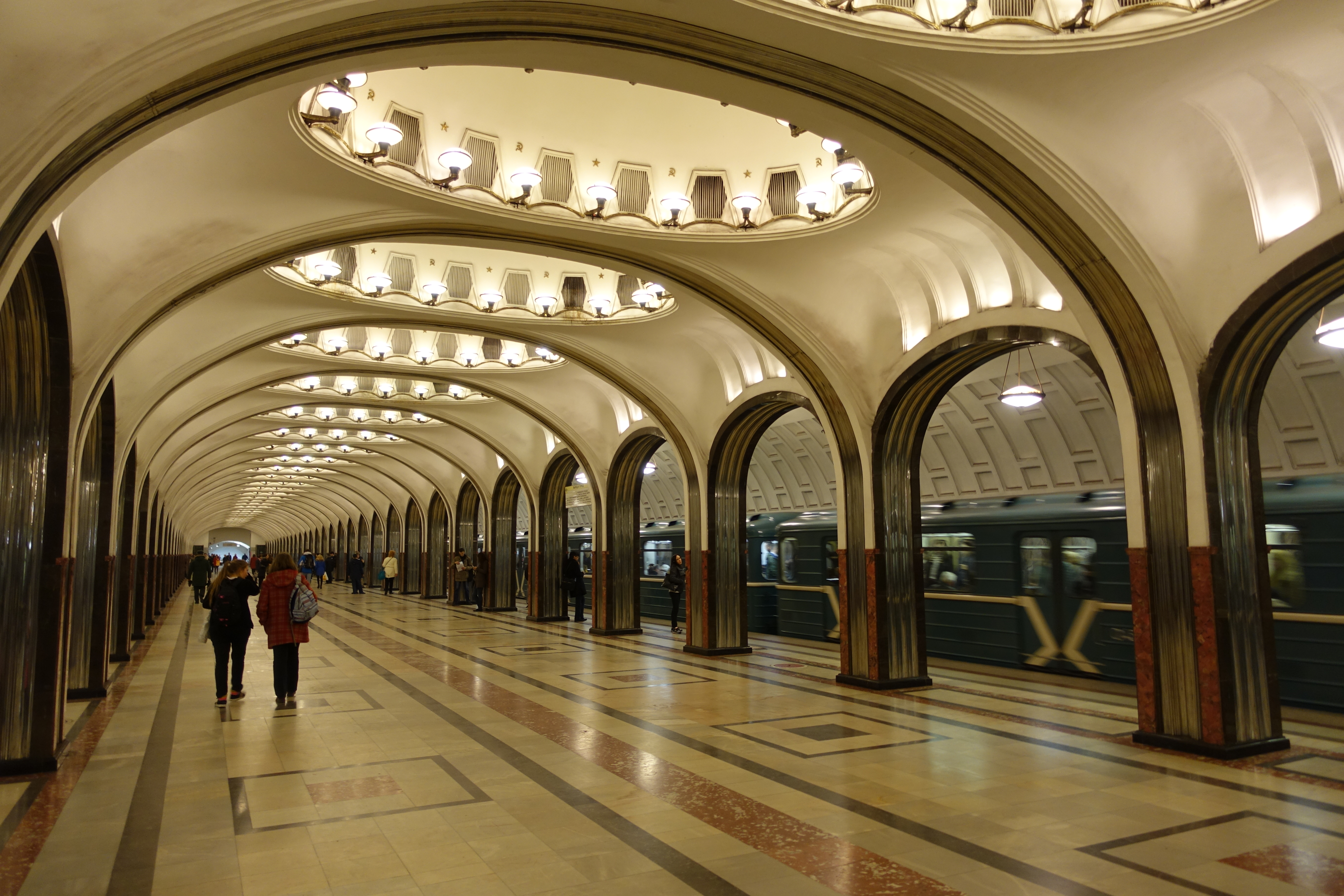 A subway station in Moscow